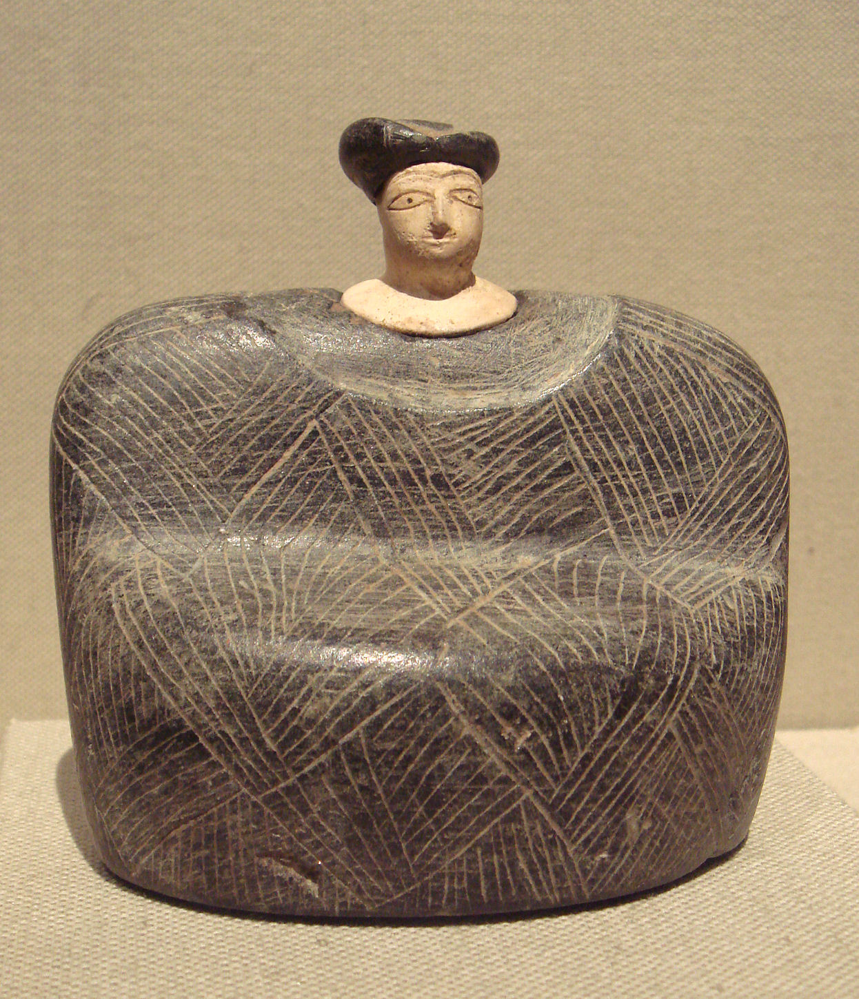 BMAC Seated Female, 3rd-Early 2nd Millenium BCE.